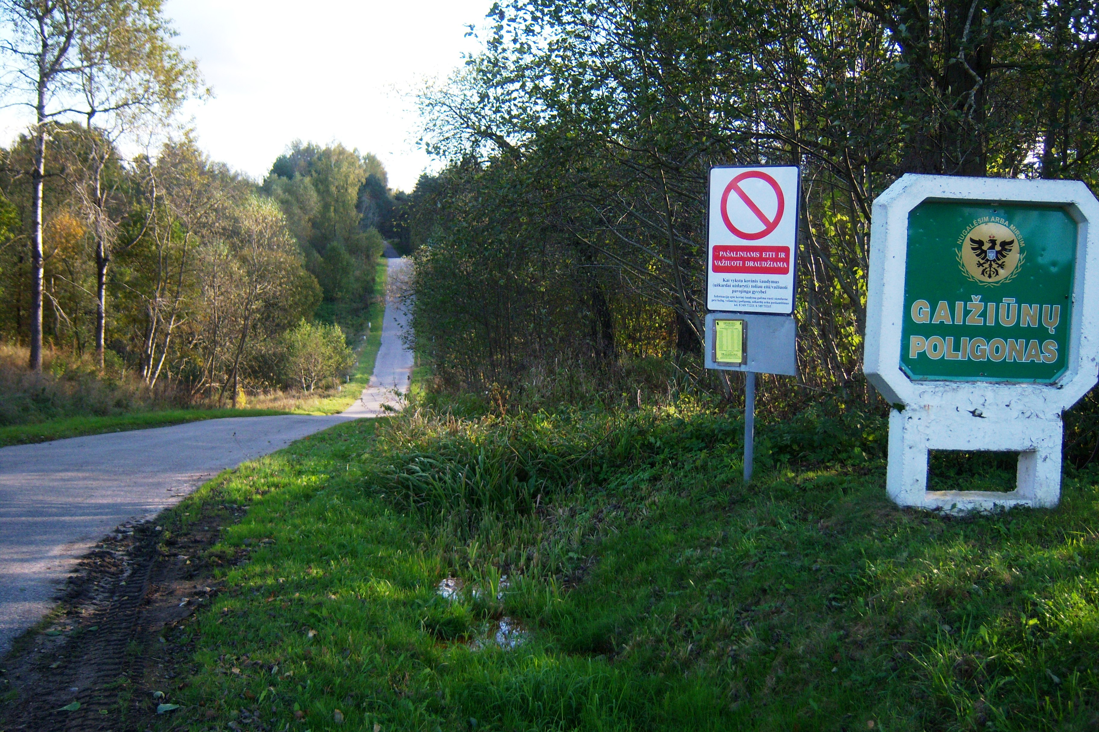 Gaižiūnai military proving ground in Rukla, Jonava District, Lithuania